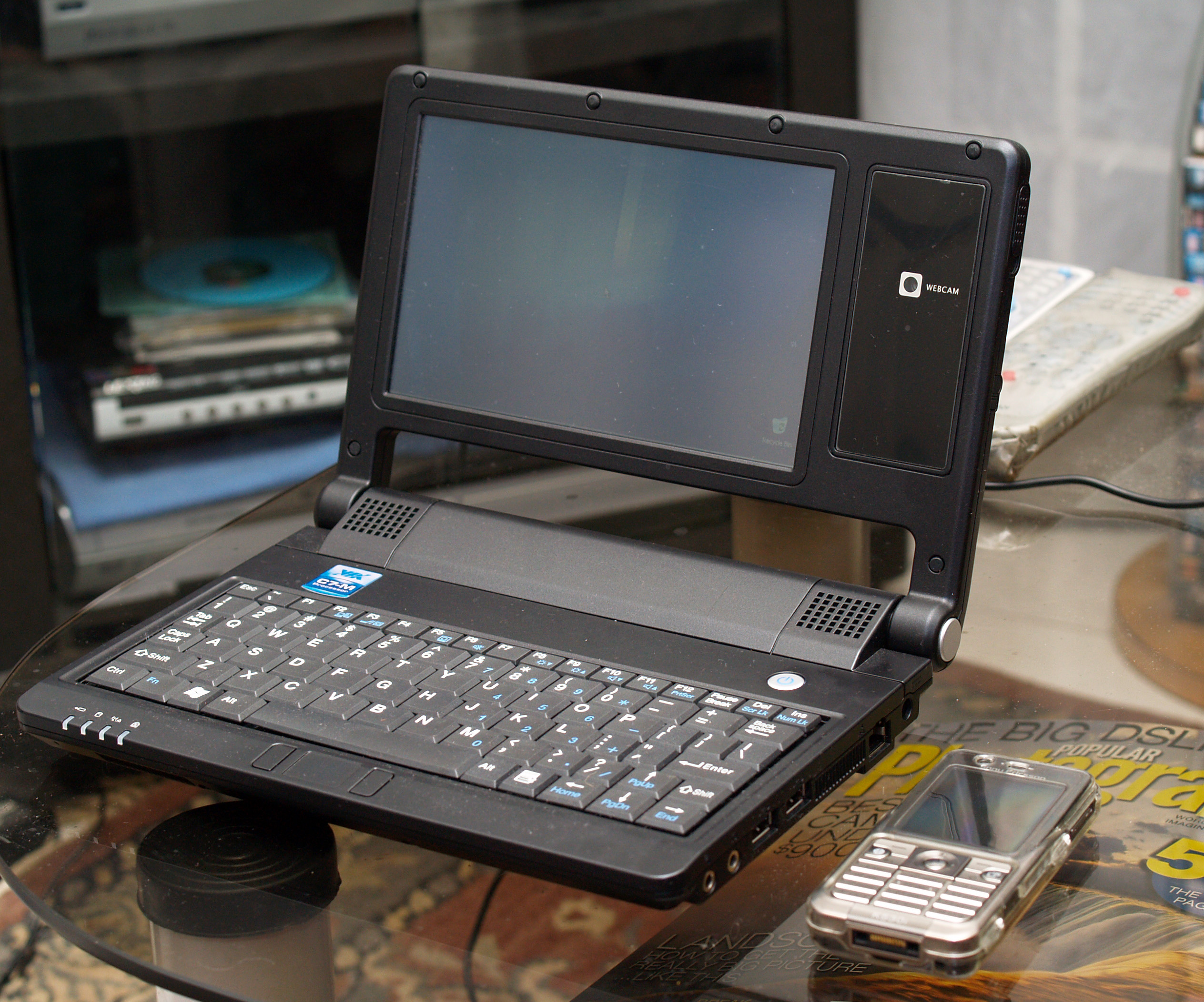 An Astone UMPC with a mobile phone beside it for size comparison.